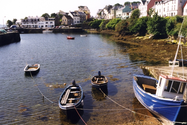 Cloch na Rón. The anglicised version of the name of this pretty village is Roundstone - but the Irish Gaelic means 'Rock of the Seals'. Nothing to do with being round!